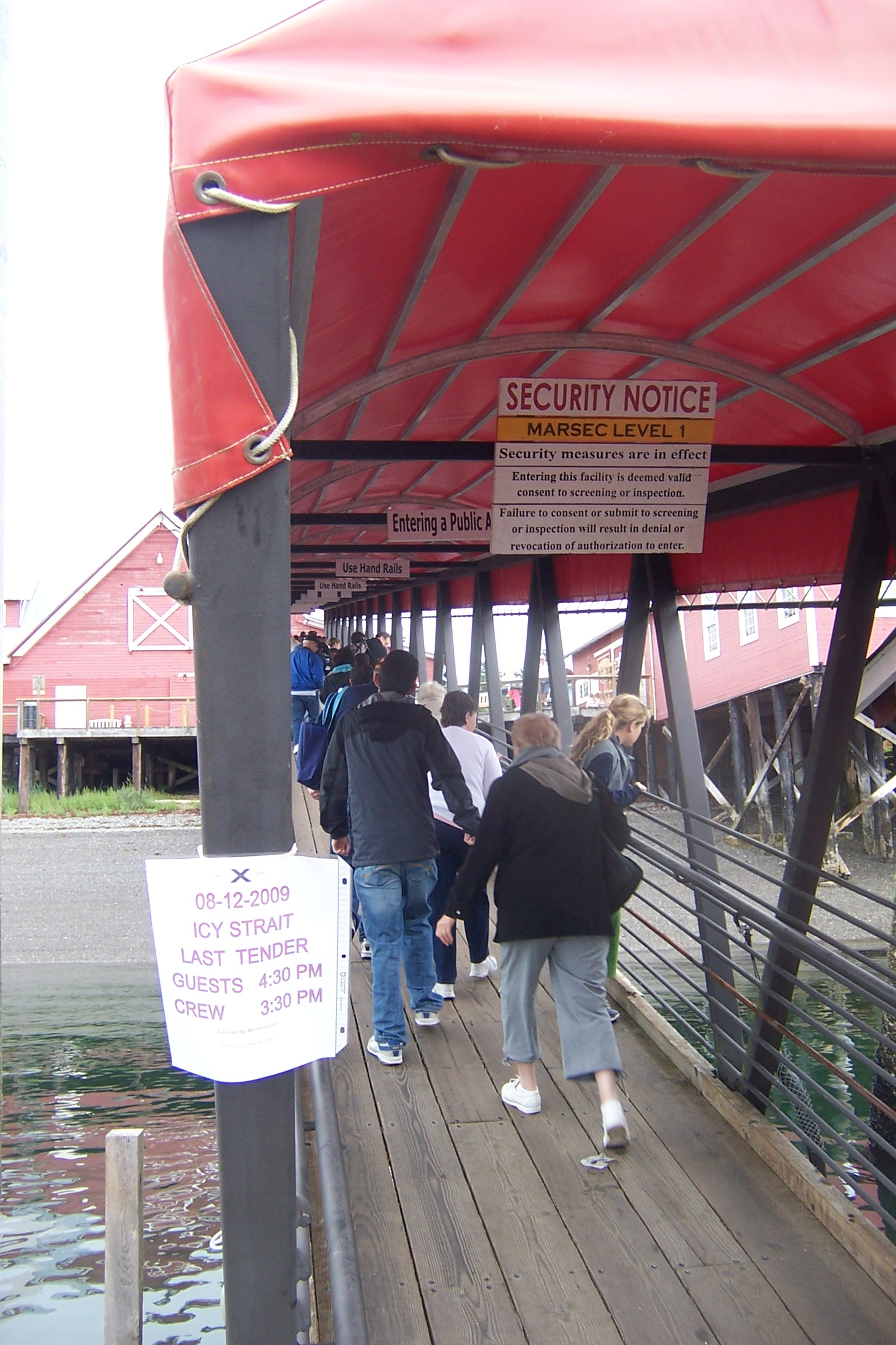 Cruise ship passengers walking from the dock for their tender into the Icy Strait Point destination. This site contains the old Hoonah Packing Company facility, now converted into a museum, restaurant, and shops. A posted sign gives information about when passengers must return by. A MARSEC notification sign is also visible.